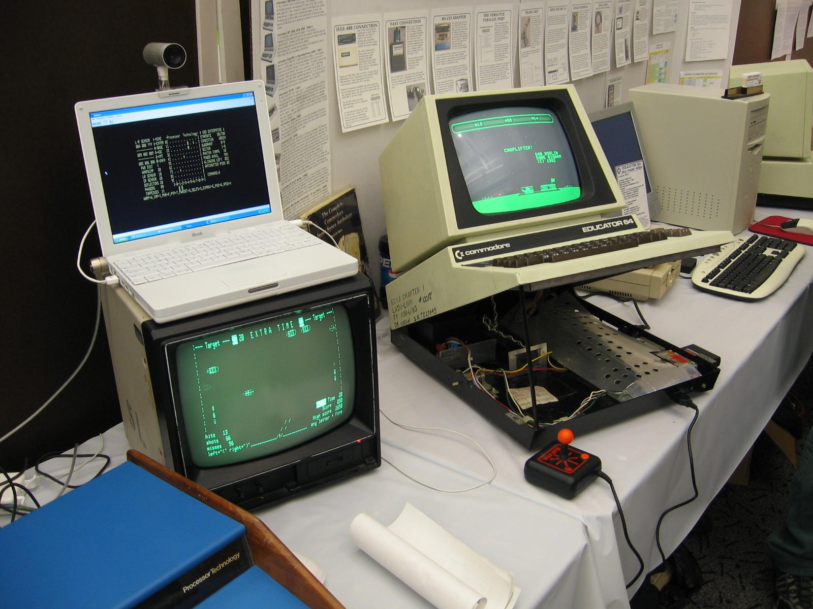 Commodore Educator64 (right), open running Choplifter[1]